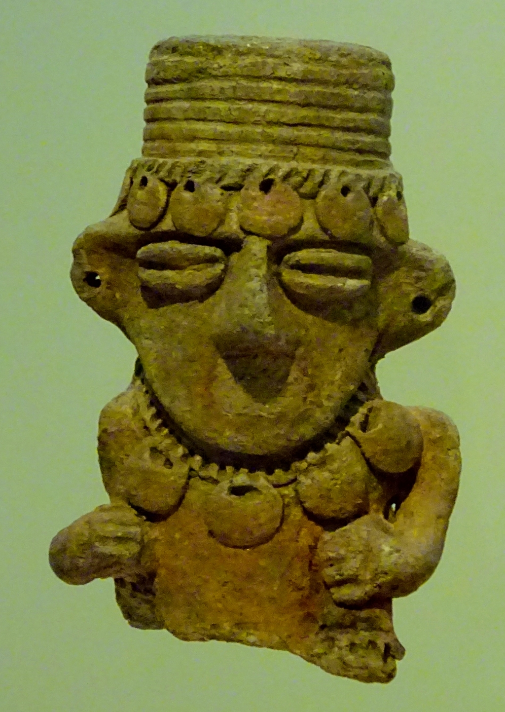 Muisca tunjo made of ceramic, exhibition Museo del Oro, Bogotá